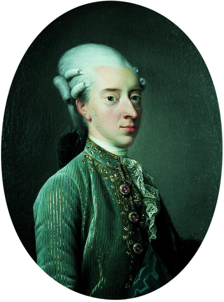 Christian 7 painted by Jens Juel in 1782. That same year the king gave the painting to the count at Gammel Estrup, where it hung until 1926, now at Reventlow-Museet, Pederstrup.